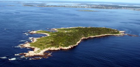 Aerial view of Ragged Island in Harpswell, Maine. Public domain image provided courtesy of the U.S. Fish & Wildlife Service.